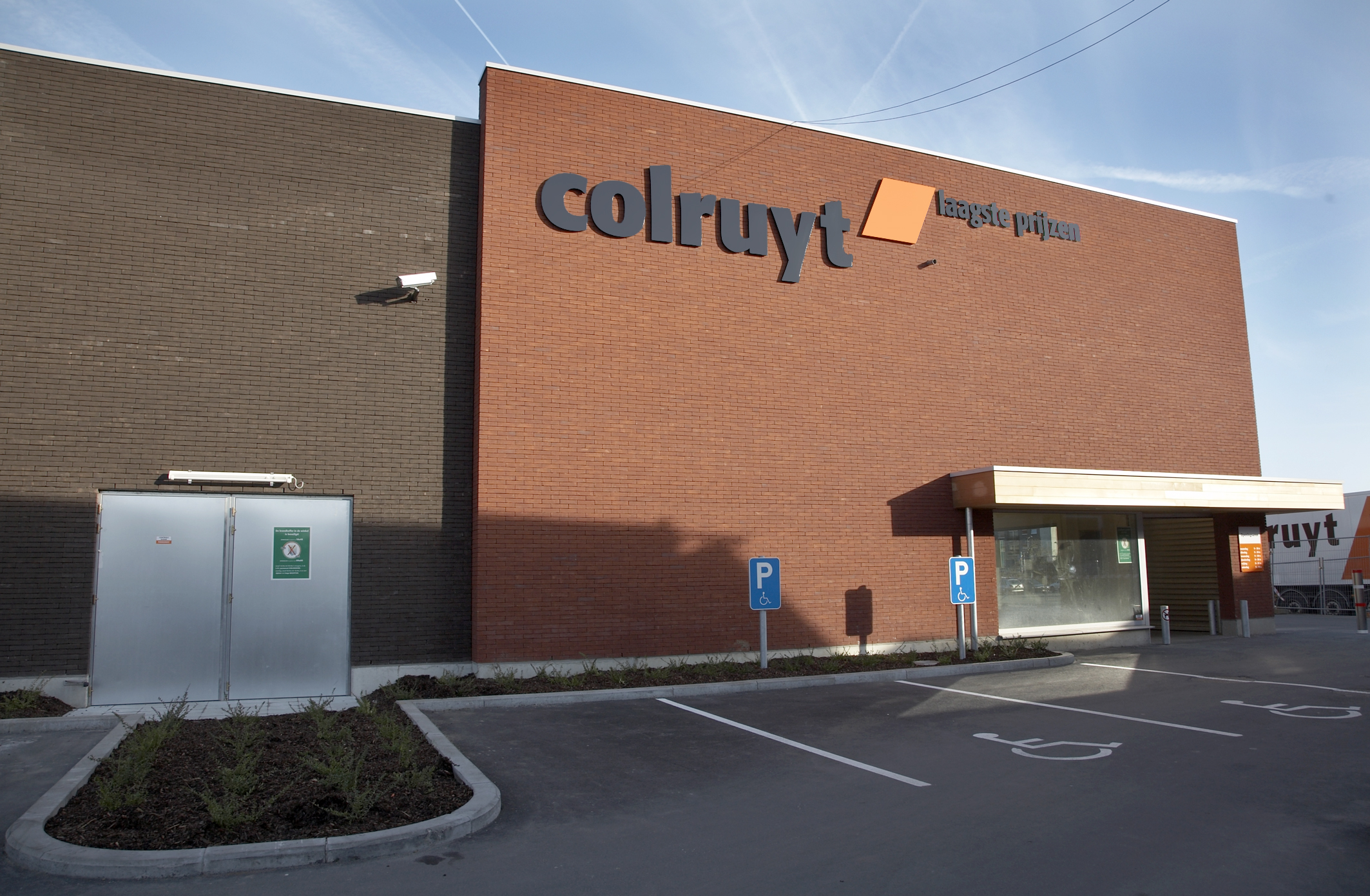 picture of the Colruyt store in Ninove Belgium